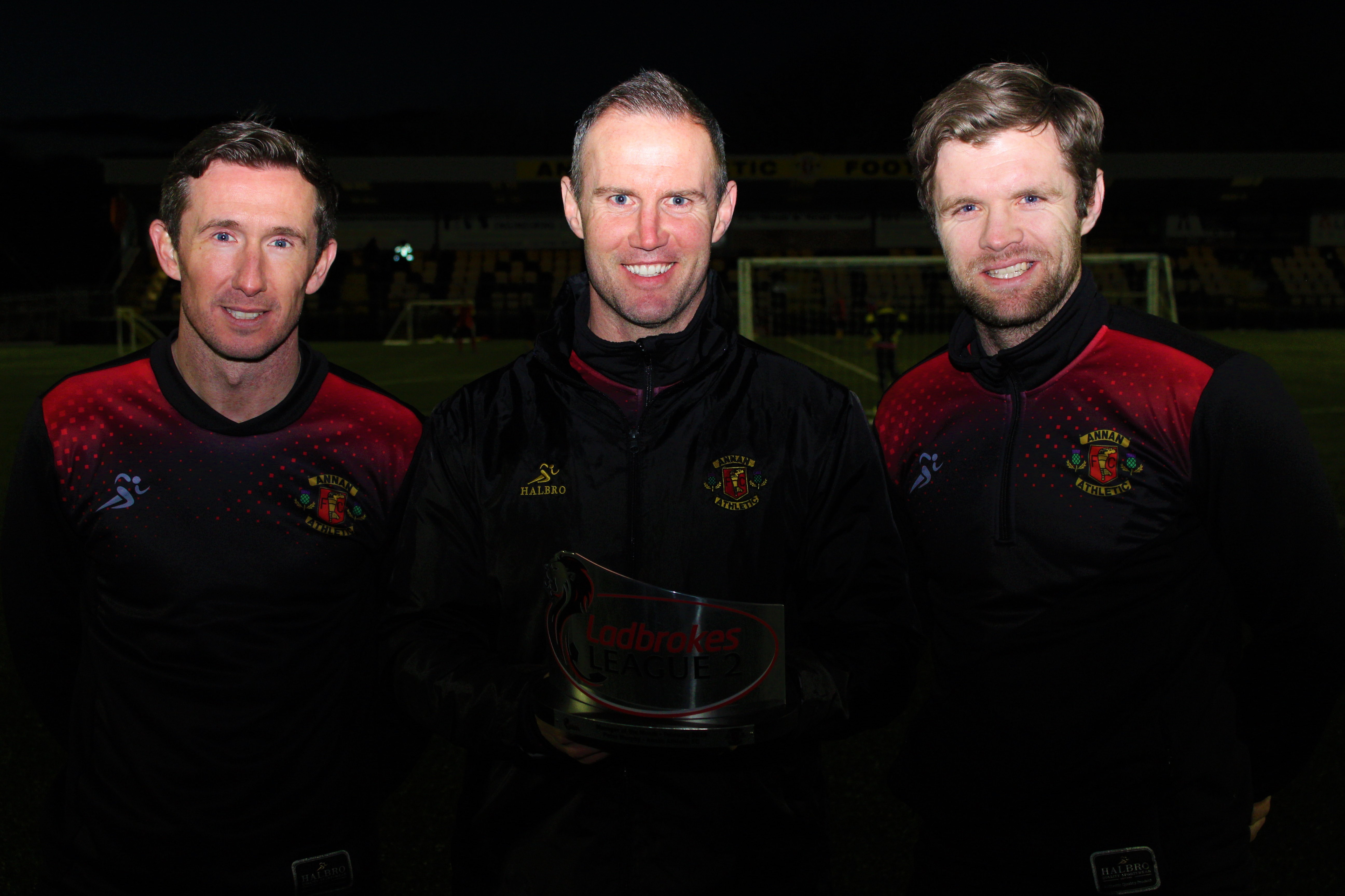 (Left to right) Alan Casey, Manager Peter Murphy & Assistant Manager Darren Barr